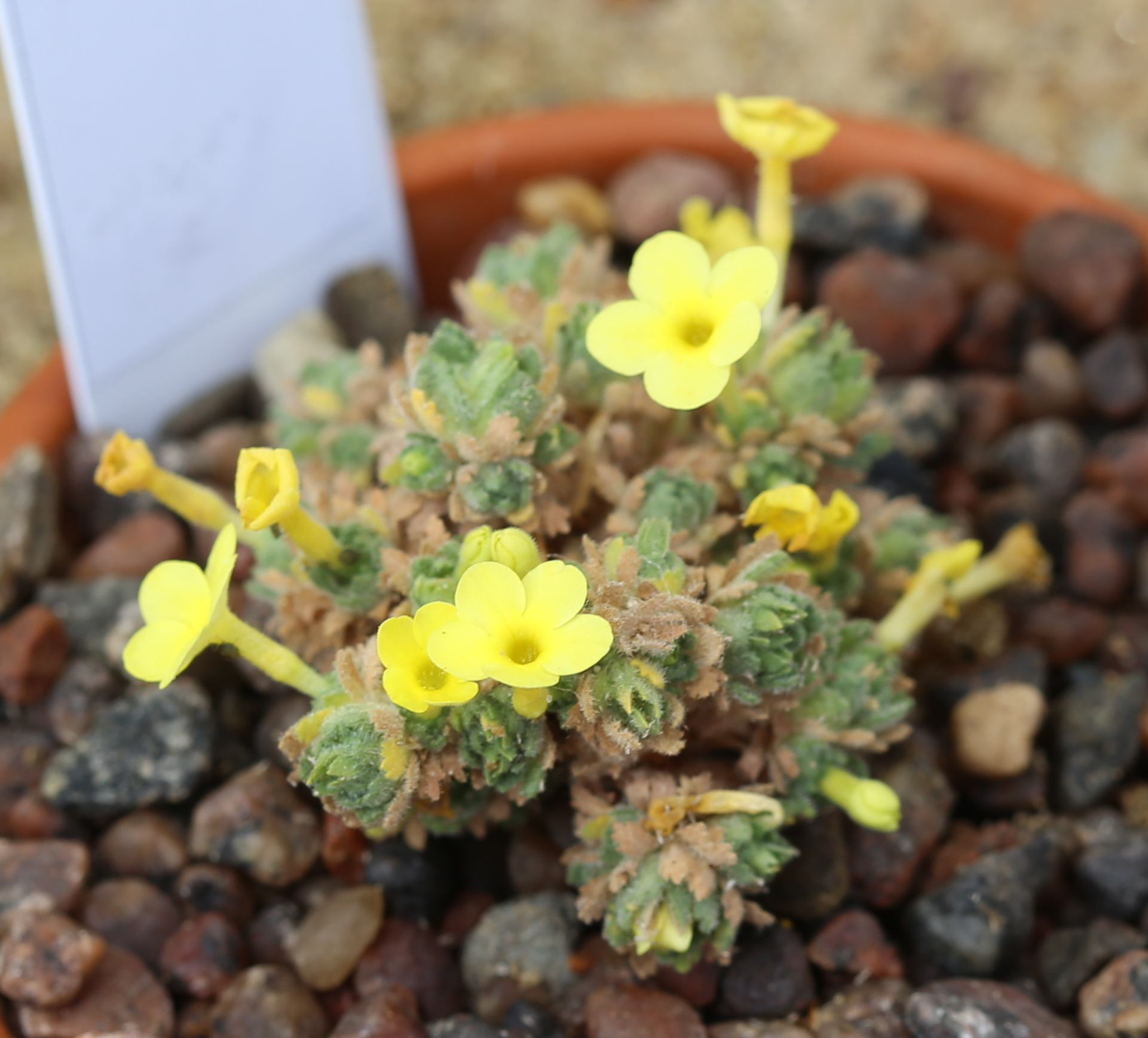 Dionysia odora at Gothenburg Botanical Garden in 2015. Plant id: 2014-1545 p Z -- Tübingen (KMZ 9511)